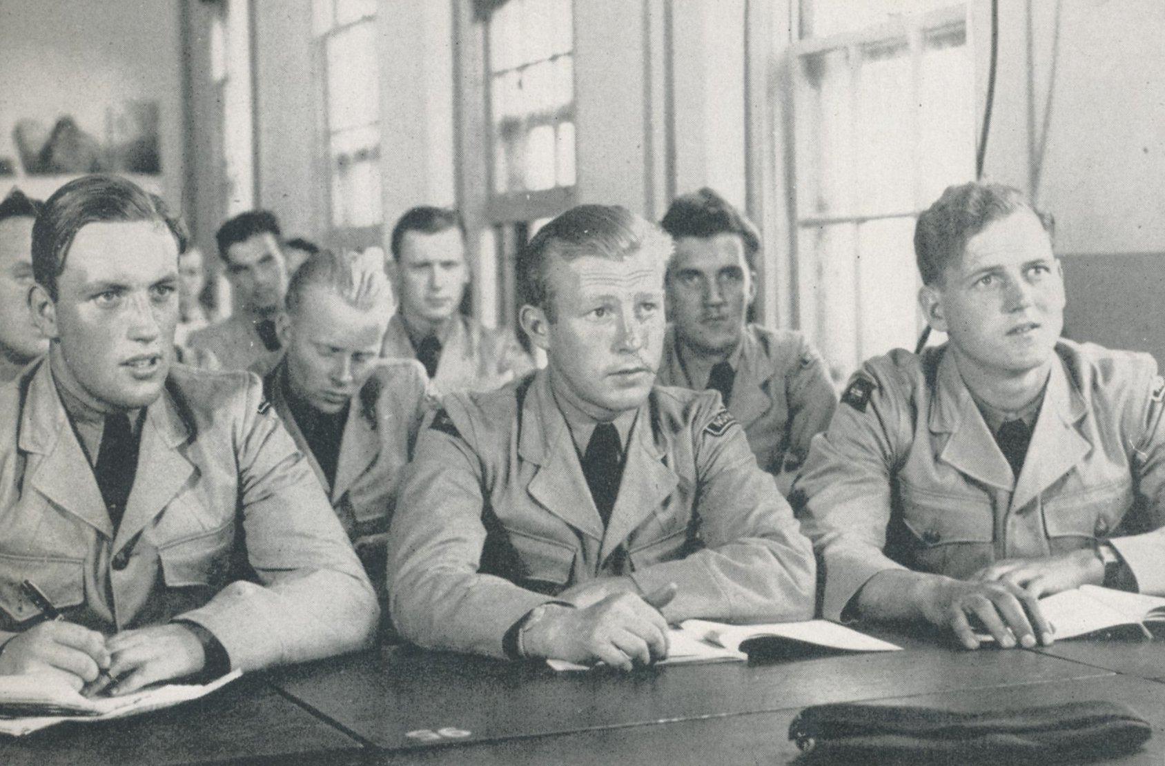 Alf R. Bjercke (left) in a classroom, Little Norway, Toronto, Canada during WWII